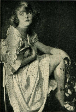 Dorothy Mackaill, from a 1923 publication